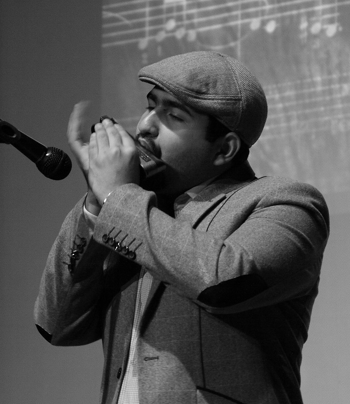 behnia